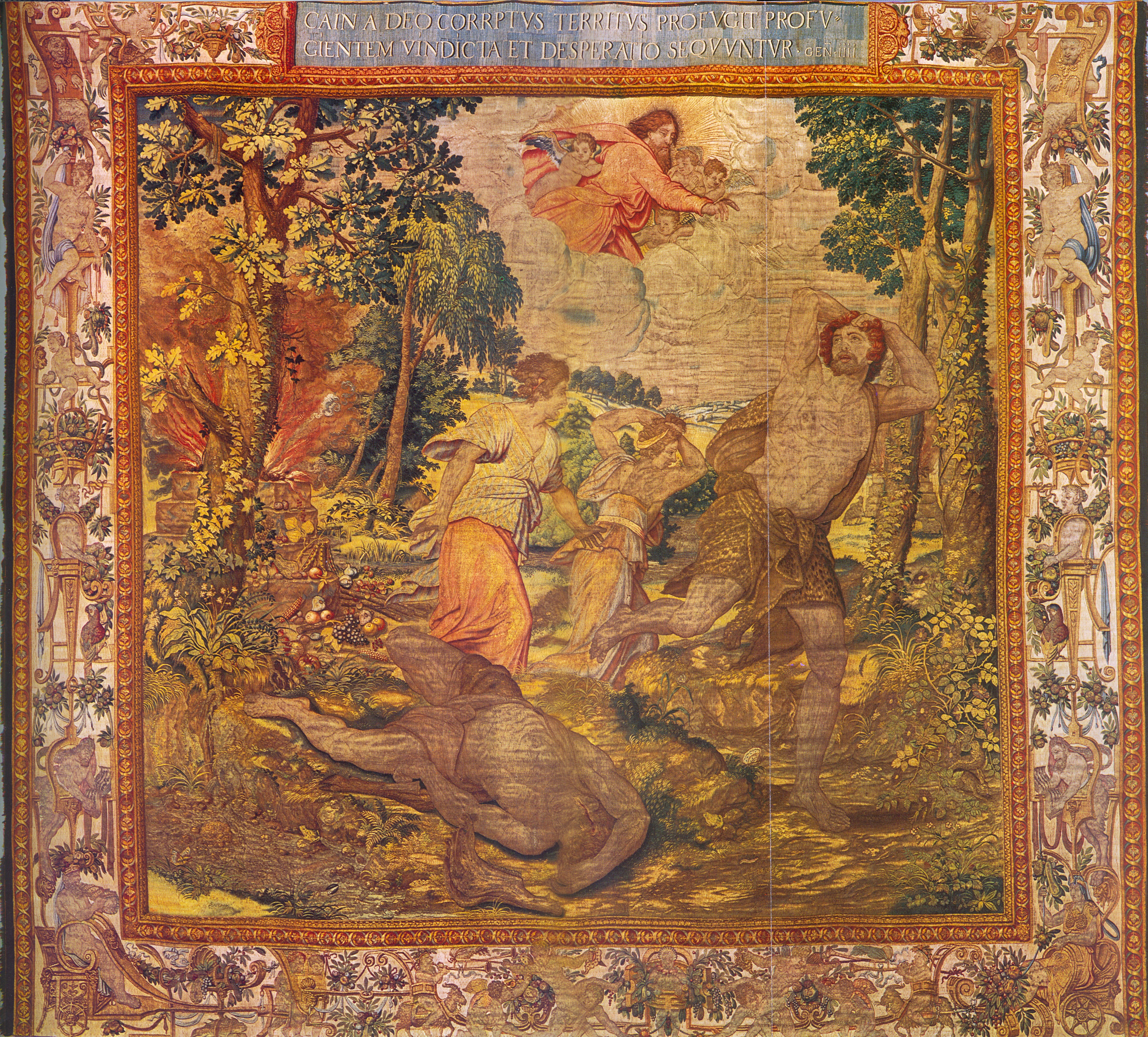 Cain's escape before God's anger. Series History of the First Parents.